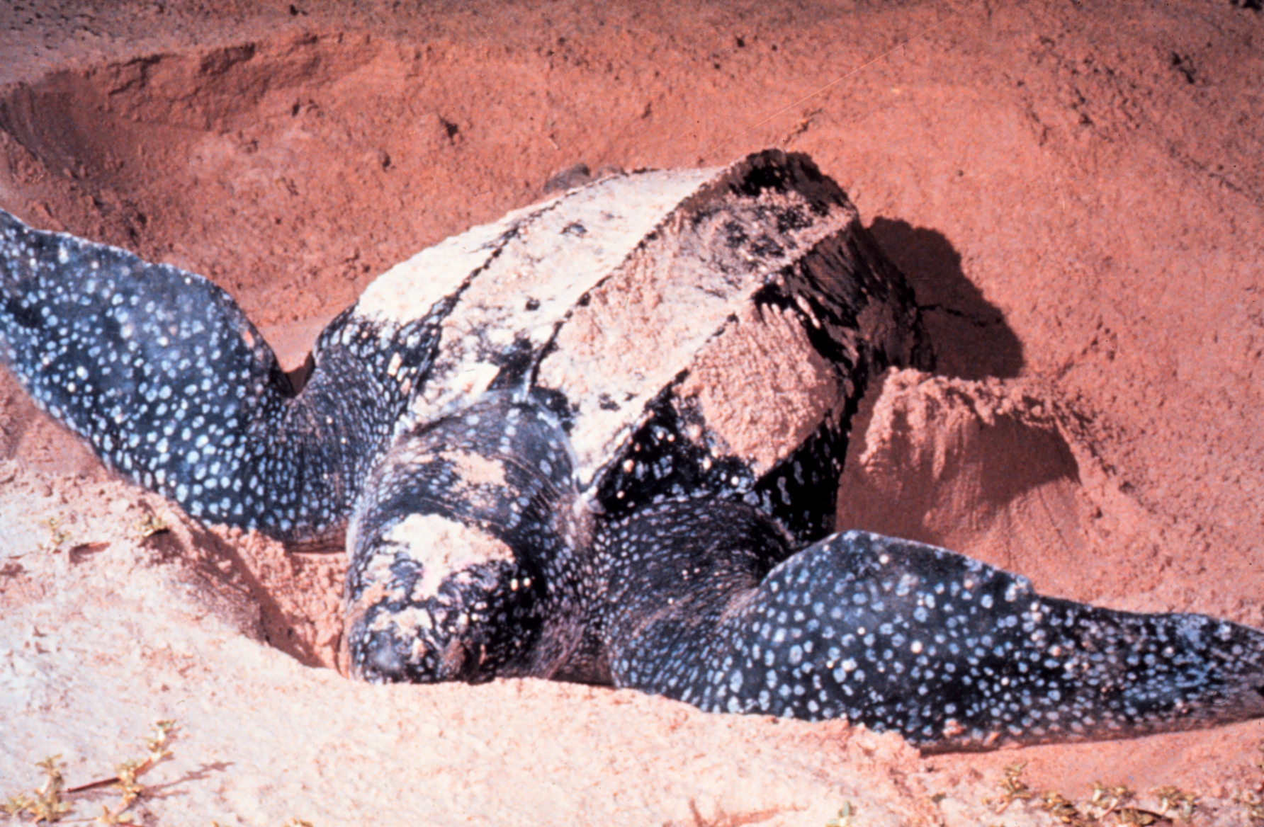 Adult Dermochelys coriacea, Leatherback Sea Turtle. In Las Baulas National Marine Park, Costa Rica.